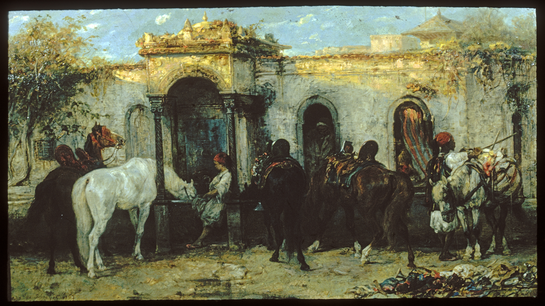 When the German artist Schreyer moved to Paris in 1862, critics compared his paintings of the Near East to the works of the orientalists Eugène Delacroix, Alexandre-Gabriel Decamps, and Eugène Fromentin. In 1859, Schreyer traveled extensively in Egypt and Syria, learning Arabic and immersing himself in Near Eastern culture.